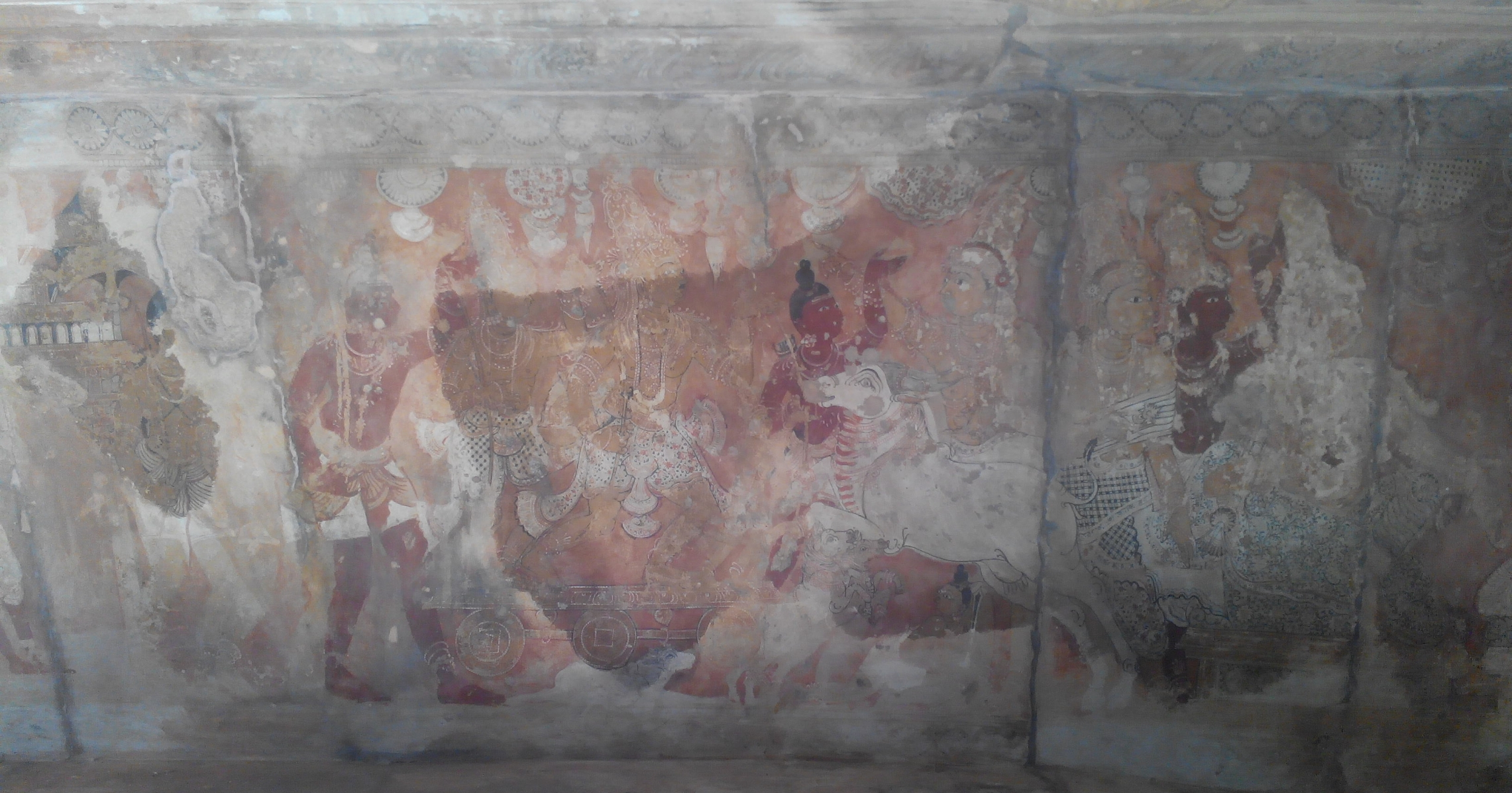 இது லேபாட்சி வீரபத்திரர் கோயில் விதானத்தில் உள்ள மனு நீதி சோழனின் வாழ்க்கையைக் குறிப்பிடும் ஓவியங்களில் ஒன்று. இந்த ஓவியமானது, கன்றை தேரேற்றிக் கொன்றுவிட்ட சோழ இளவரசன் நீதிவிடங்கனின் செயலை சித்தரிக்கிறது